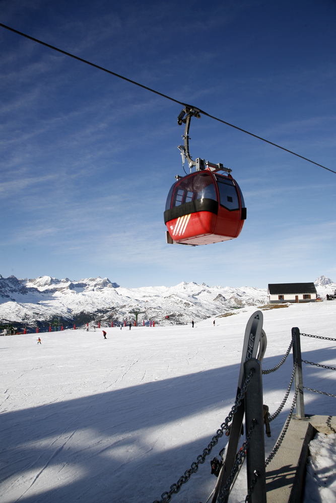 Gondola lift in Aramon Panticosa ski resort. Spanish Pyrenees.